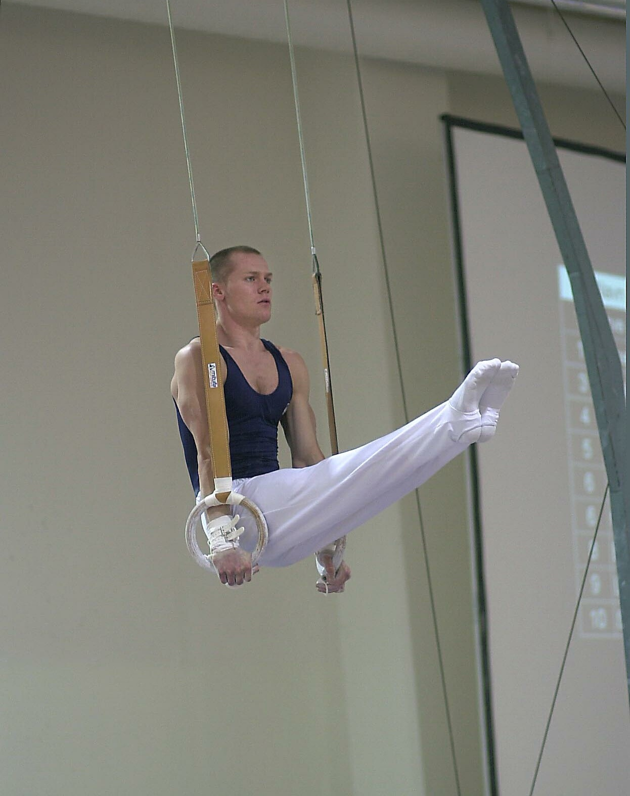 Norwegian gymnast Kristian Solem in rings at the Norwegian championships in 2001.